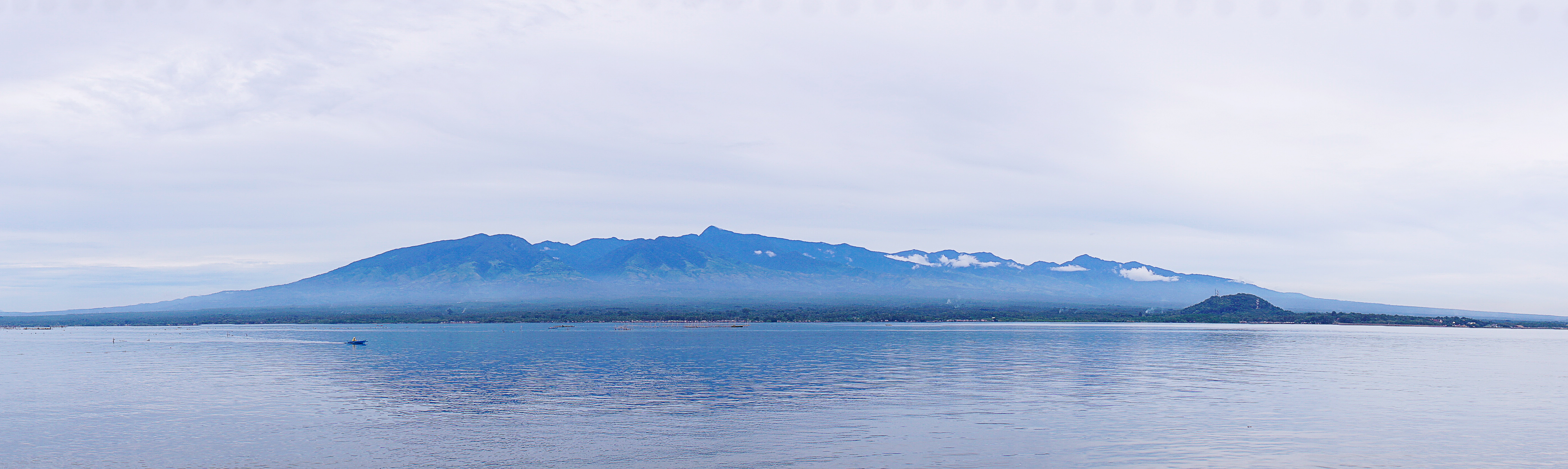 A natural park and a world heritage site in 2002, Misamis Occidental is home to Mount Malindang.